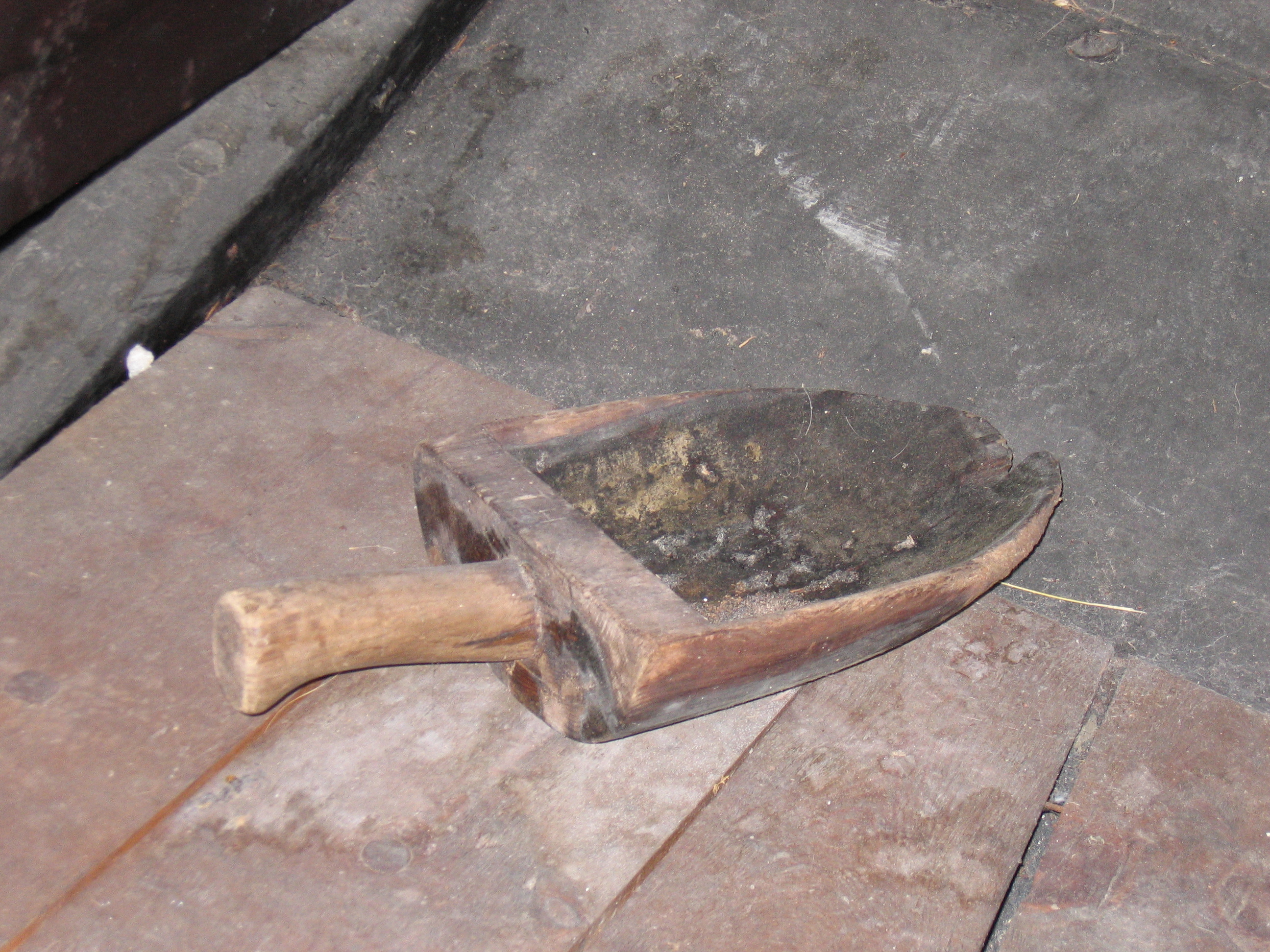 A norwegian auskjer, to empty a boat